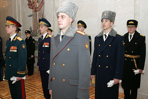 DEFENCE MINISTRY, MOSCOW. Inspection by the President of the new Russian Armed Forces uniforms.